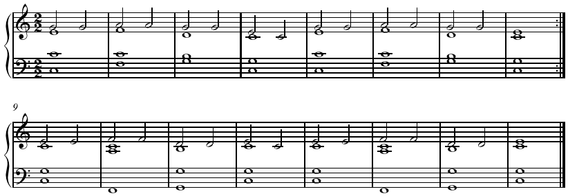 Bergamesca ('The Buffens'), Straloch MS., c. 1600. Created by Hyacinth (talk) 12:46, 25 May 2011 (UTC) using Sibelius 5.